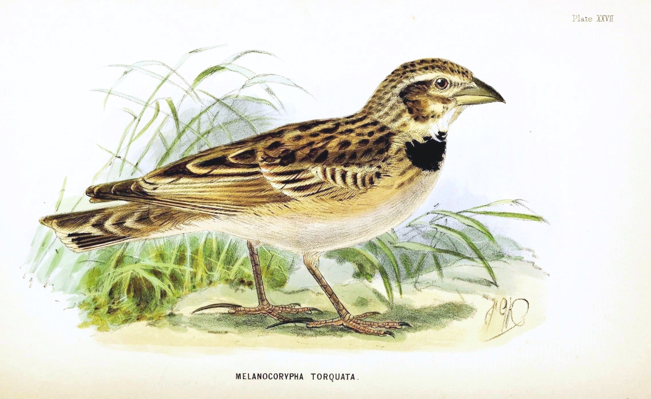 Lahore to Yārkand : incidents of the route and natural history of the countries traversed by the expedition of 1870, under T. D. Forsyth /